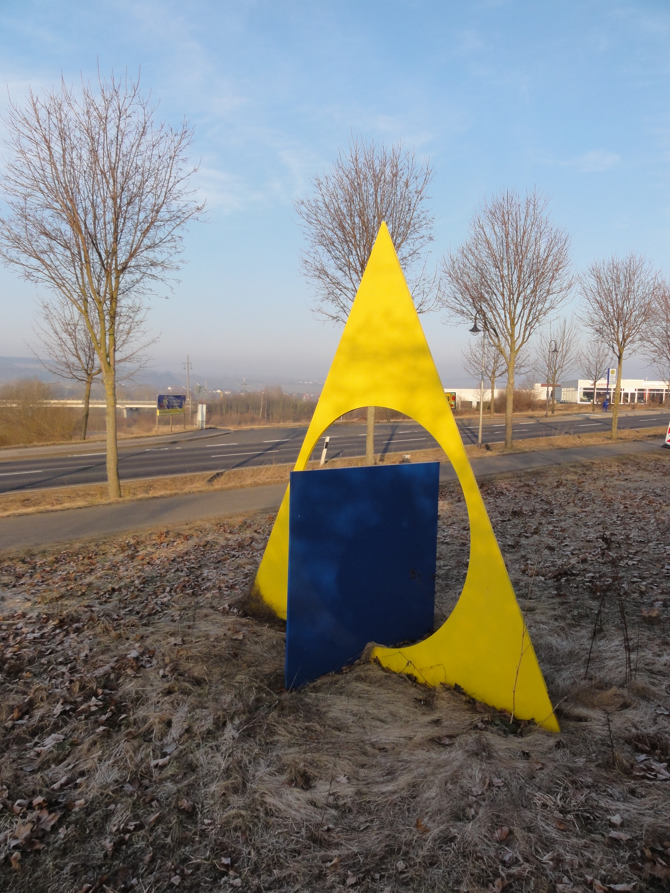 Sculptur in north Hünfeld